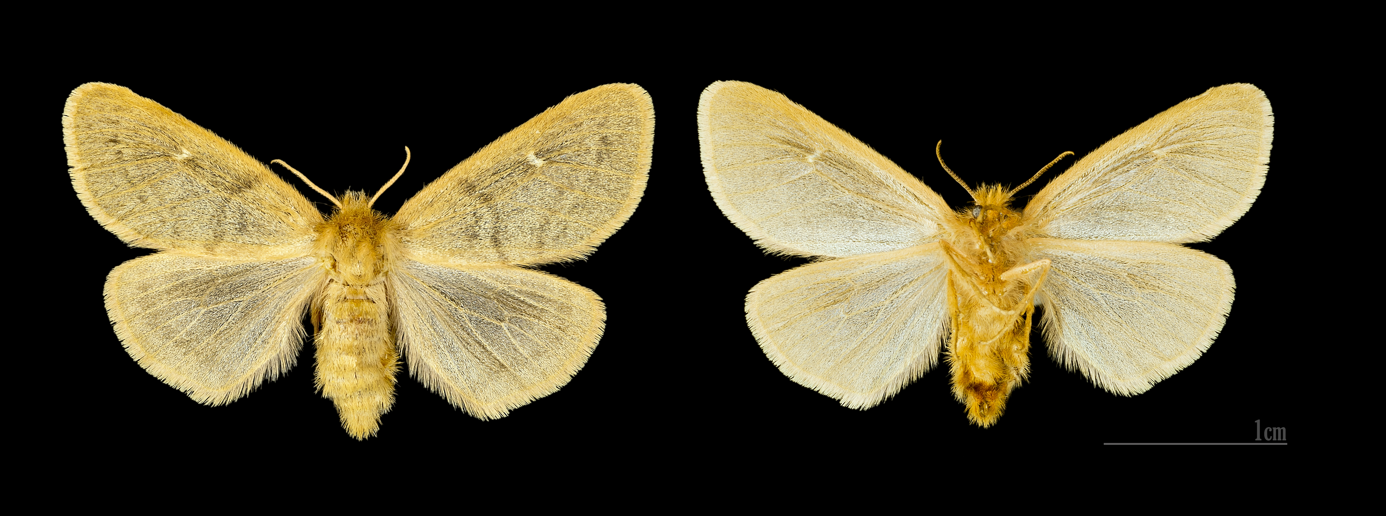 Ocneria rubea. Two views of same specimen